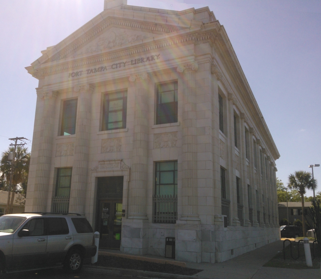 The Port Tampa Public Library in Port Tampa, Tampa, Florida